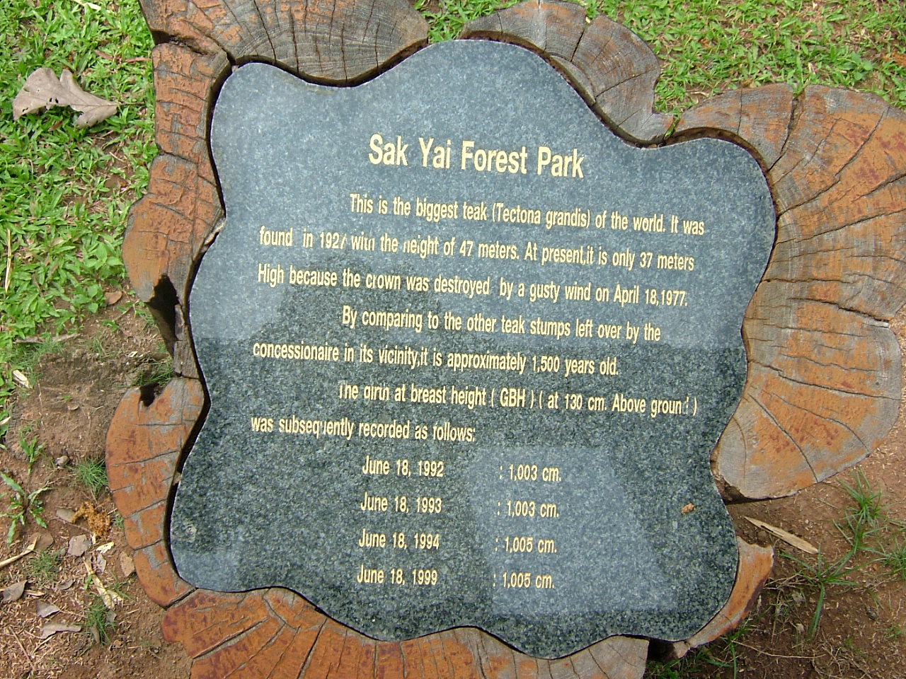 Sak yai,Uttaradit.